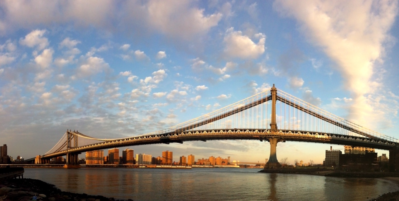 Manhattan Bridge from Brooklyn Bridge Park